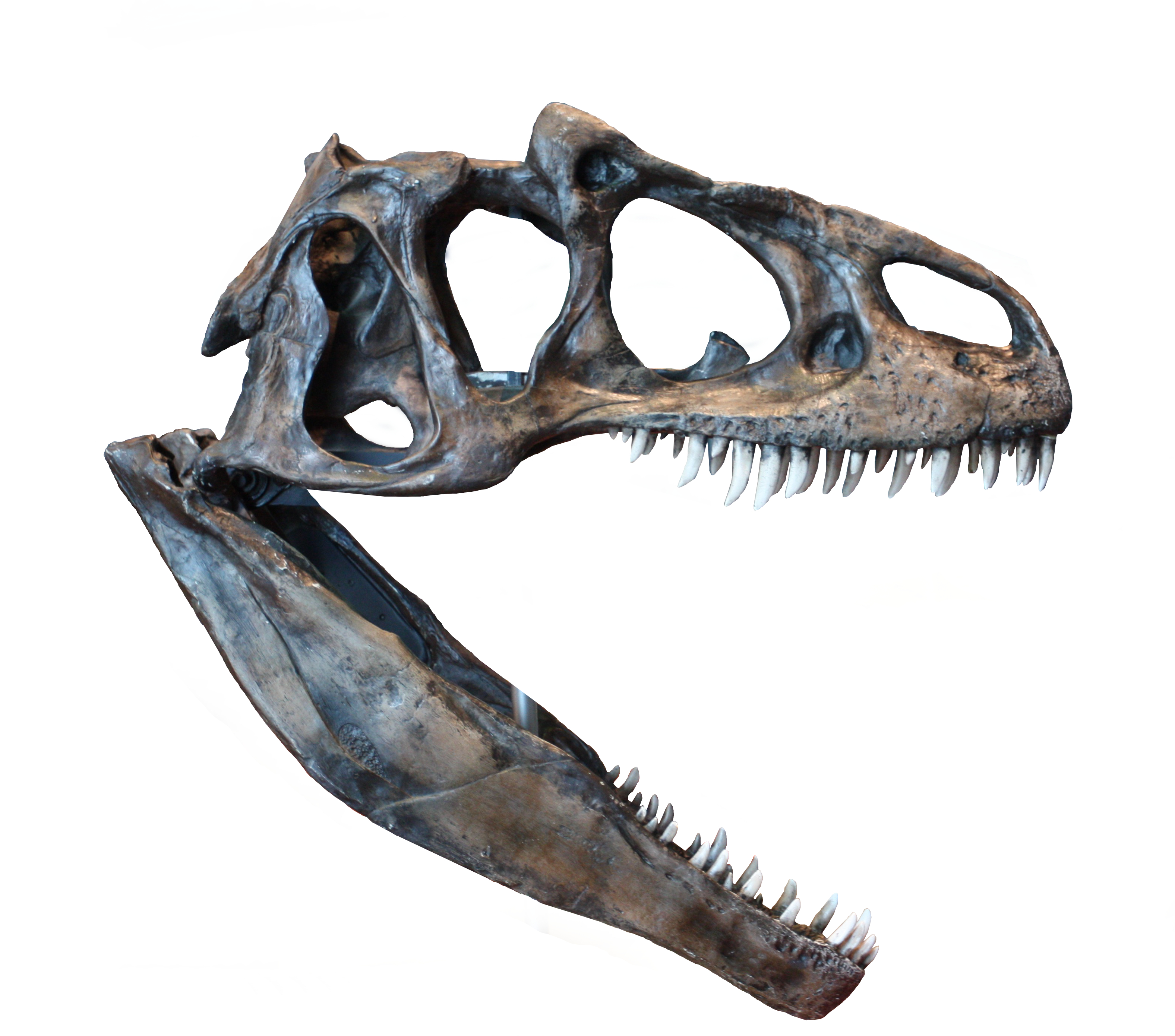 Skull of Allosaurus fragilis in right lateral view. Skull is on display in Telus World of Science Vancouver.